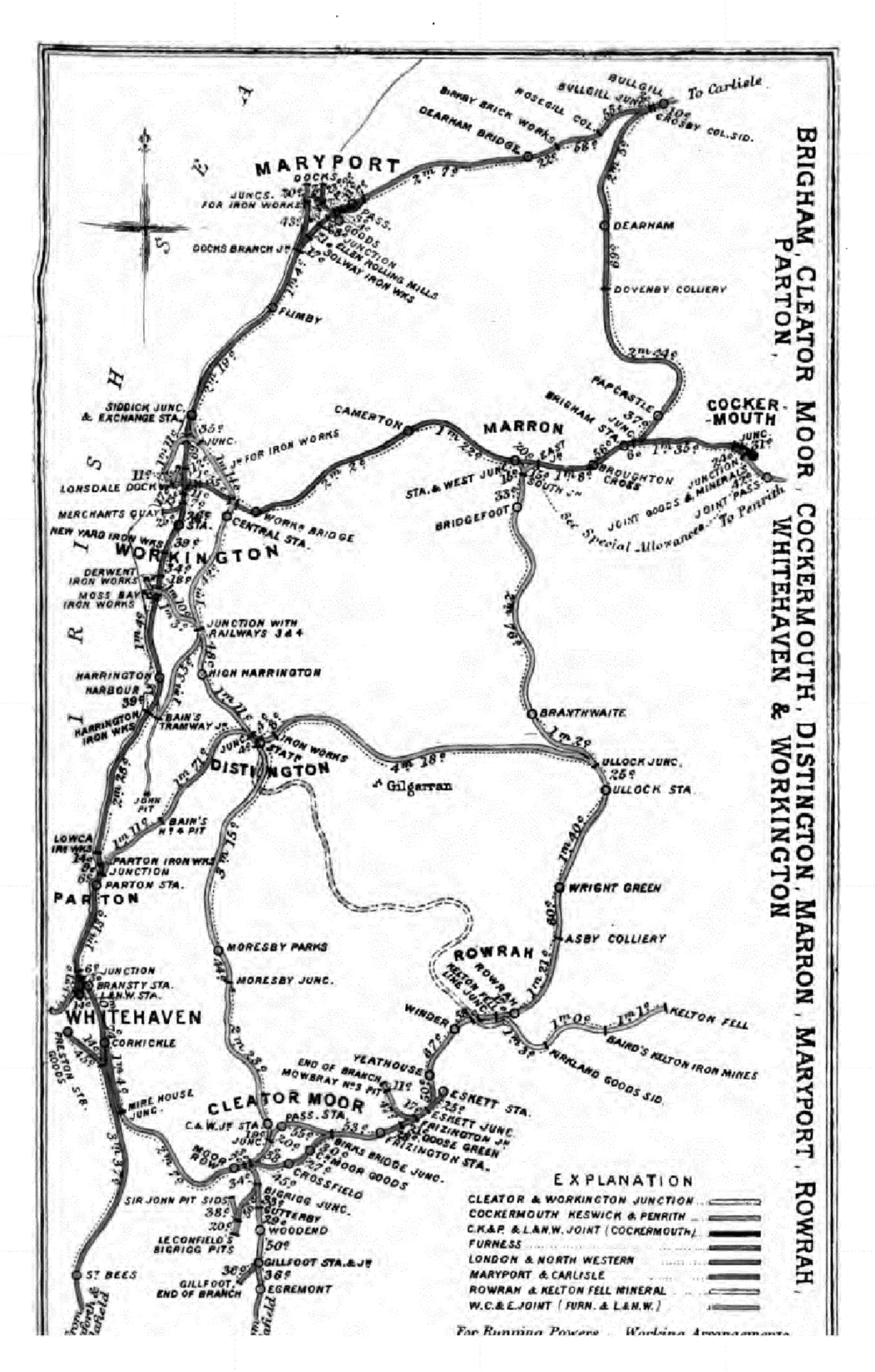 Pre-grouping railway junction diagram of industrial West Cumberland, digitised by Google